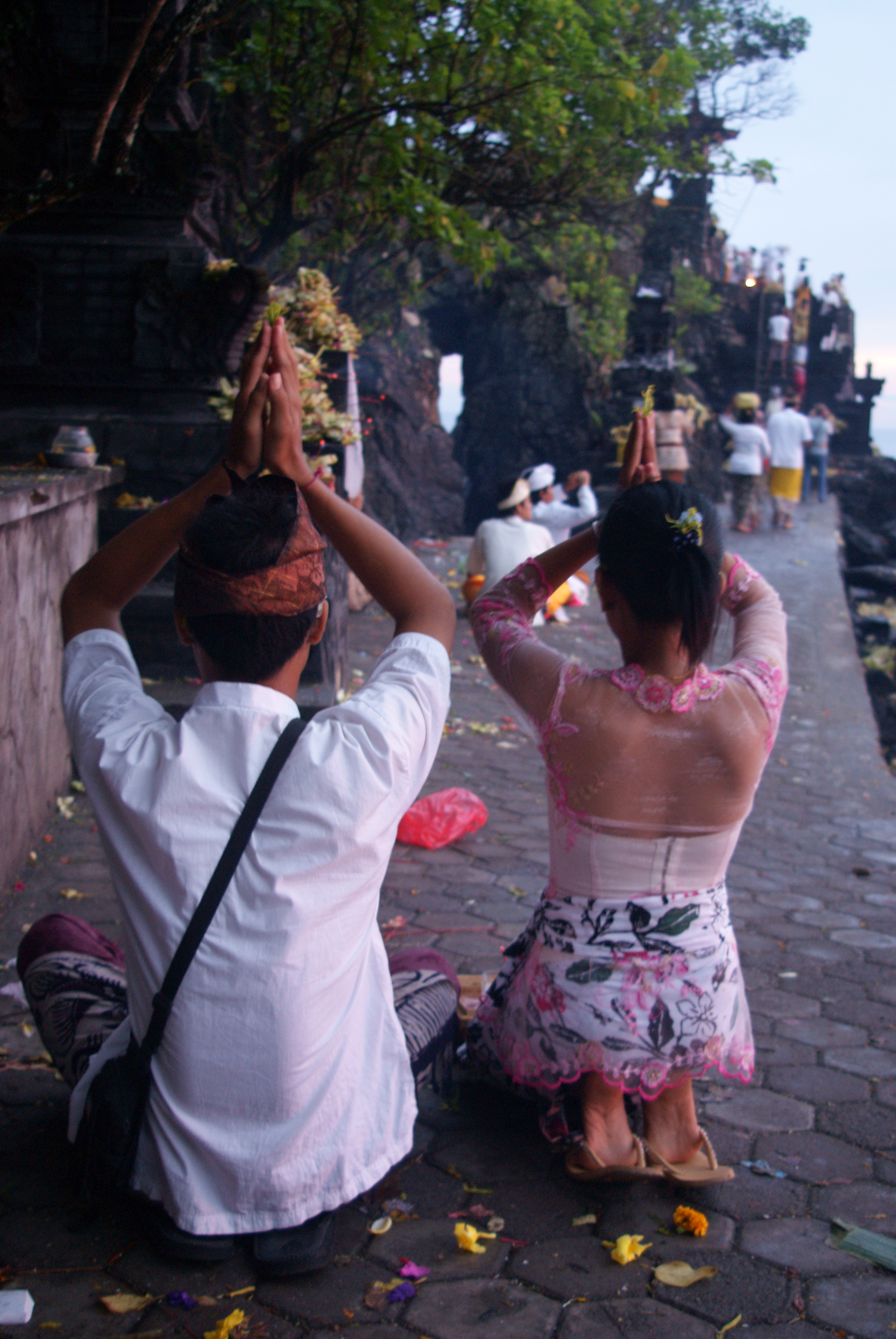 Praying at Pura Batubolong, Senggigi, Lombok, Indonesia